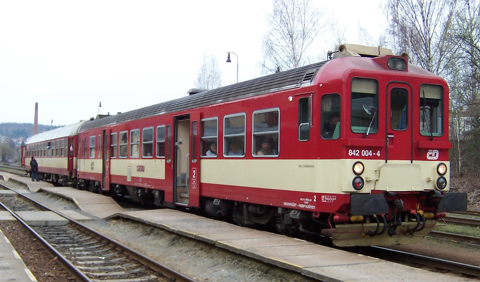 The fast train No. 795 Otava from Sušice to Zdice stopped at the train station in Příbram. A passenger car class 042 is hauled by a railcar class 842.